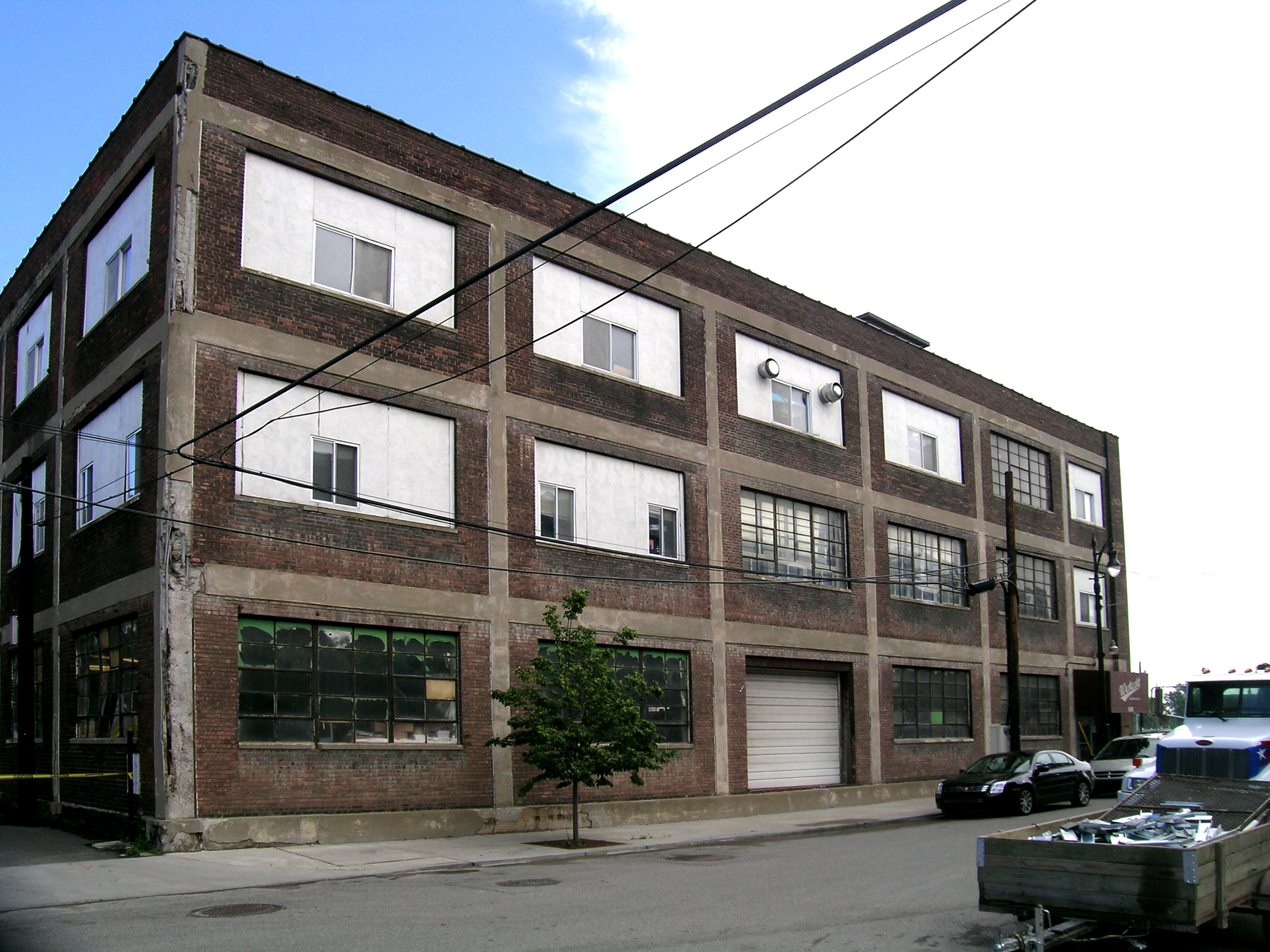 The Cadillac vehicles Assembly Plant — at 450 Amsterdam Street in Detroit, Michigan. It is a historic district contributing property within the New Amsterdam Historic District.